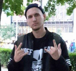 Gleb - slovak MC